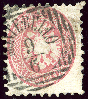 Stamp of Lombardy and Venetia, 5 soldi issue 1864, cancelled at MONTEBELLO (Mueller type RvS-f). Michel N°21.